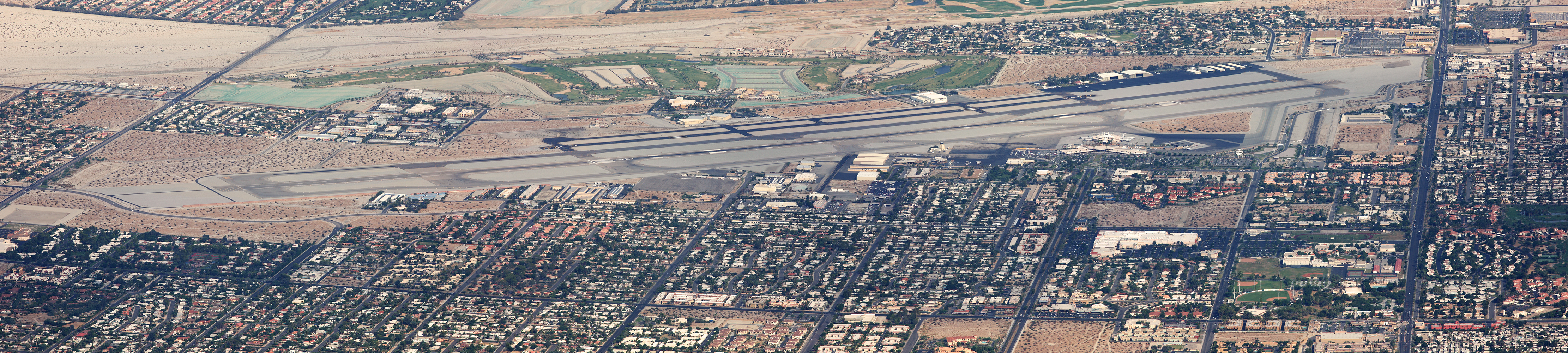 Palm Springs International Airport viewed from the San Jacinto Mountains A 5 image stitch